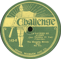 I'd Rather Be Alone, Challenge Records around 1927. The song was originally issued by Gennett under the name of Barney Zeeman's Kentucky Cardinals, Challenge gives the credit to the Memphis Melody Boys, although the song is the same. But indeed, the song was cut by Harry Reser's band, so this challenge issue is a pseudonym of a pseudonym.